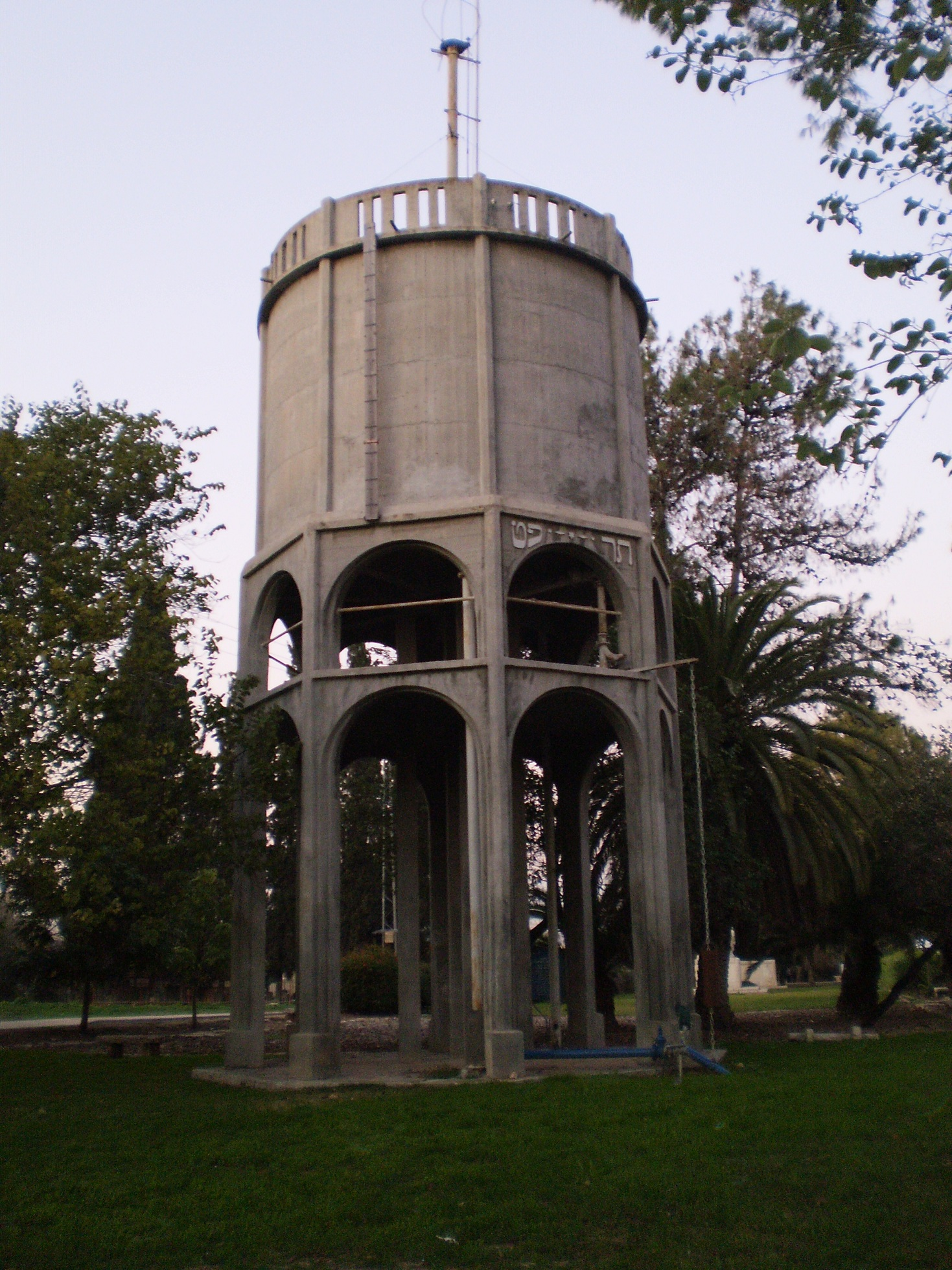 Kfar Yehoshua - Water tower